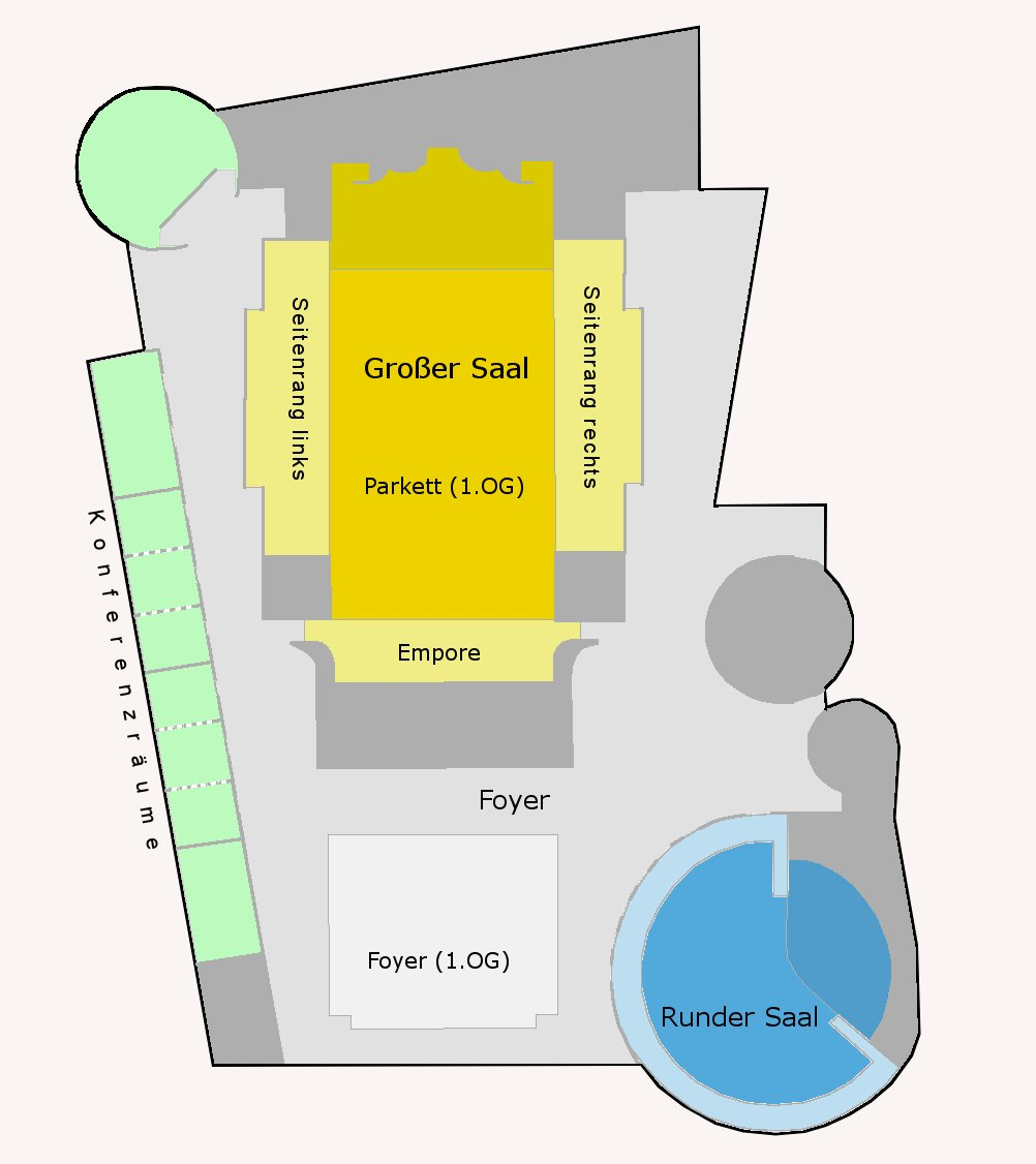 sketch with raw proportions of the rooms within Konzerthaus Freiburg